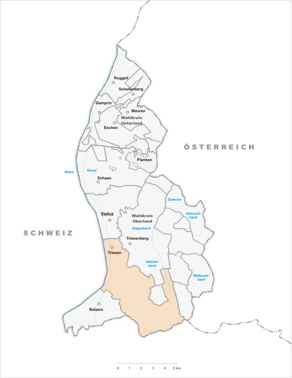 Municipality Triesen